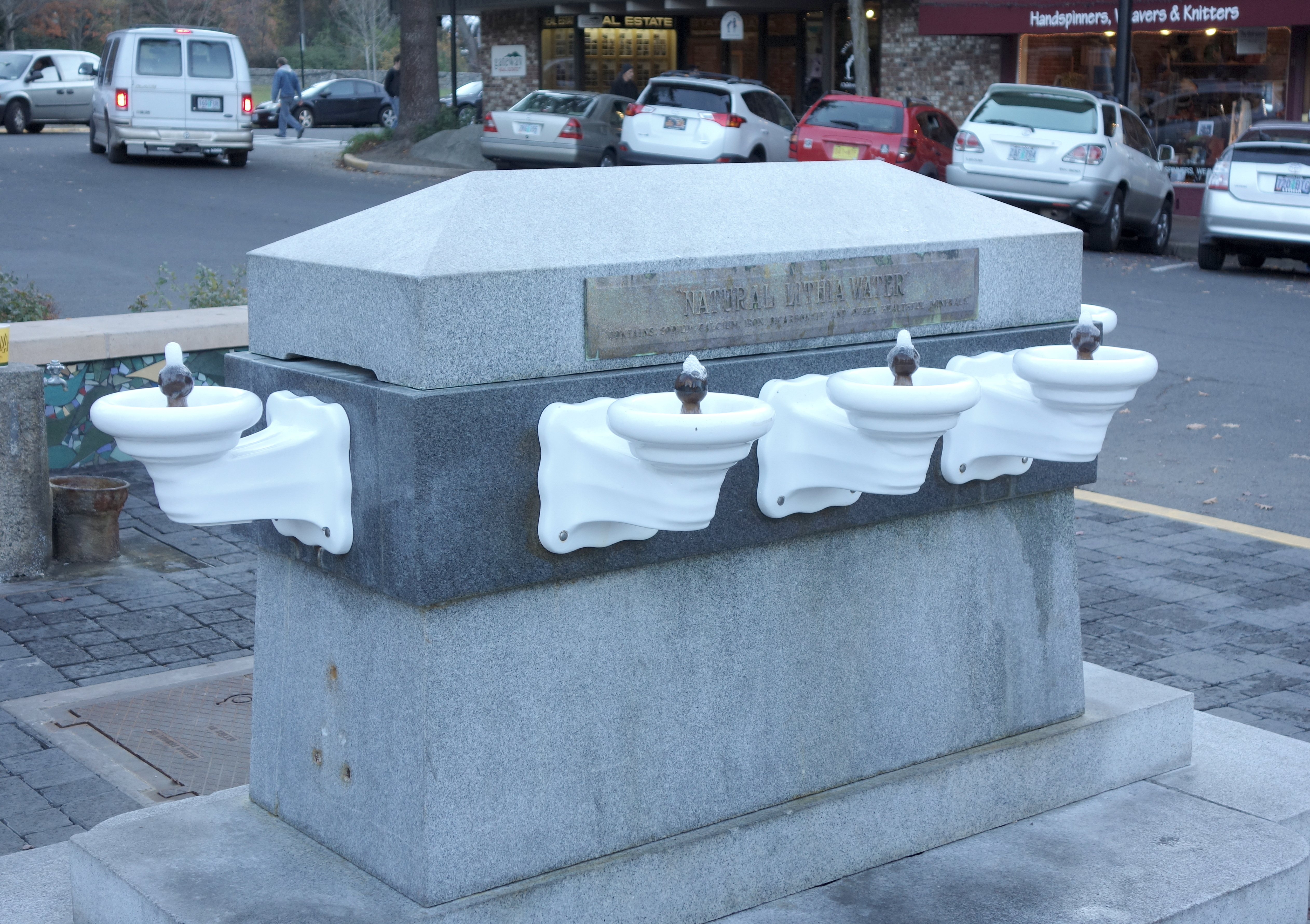 Natural Lithia Water fountain - Ashland, Oregon, USA.